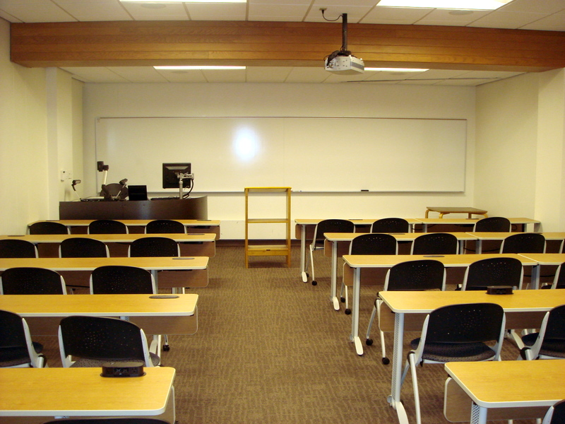 UC Law Technology Classroom